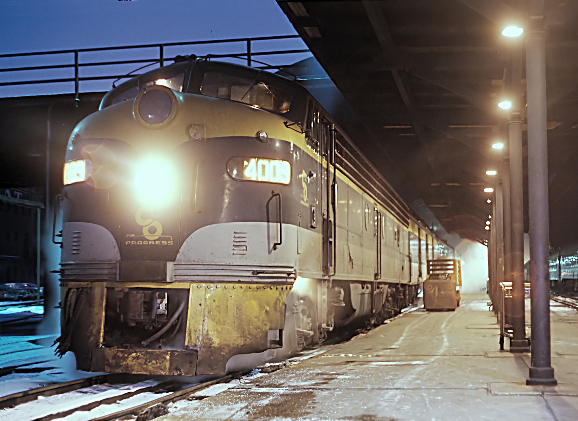 C&O E8A #4009 leads the Pere Marquette at Grand Central Station, Chicago in December 1967